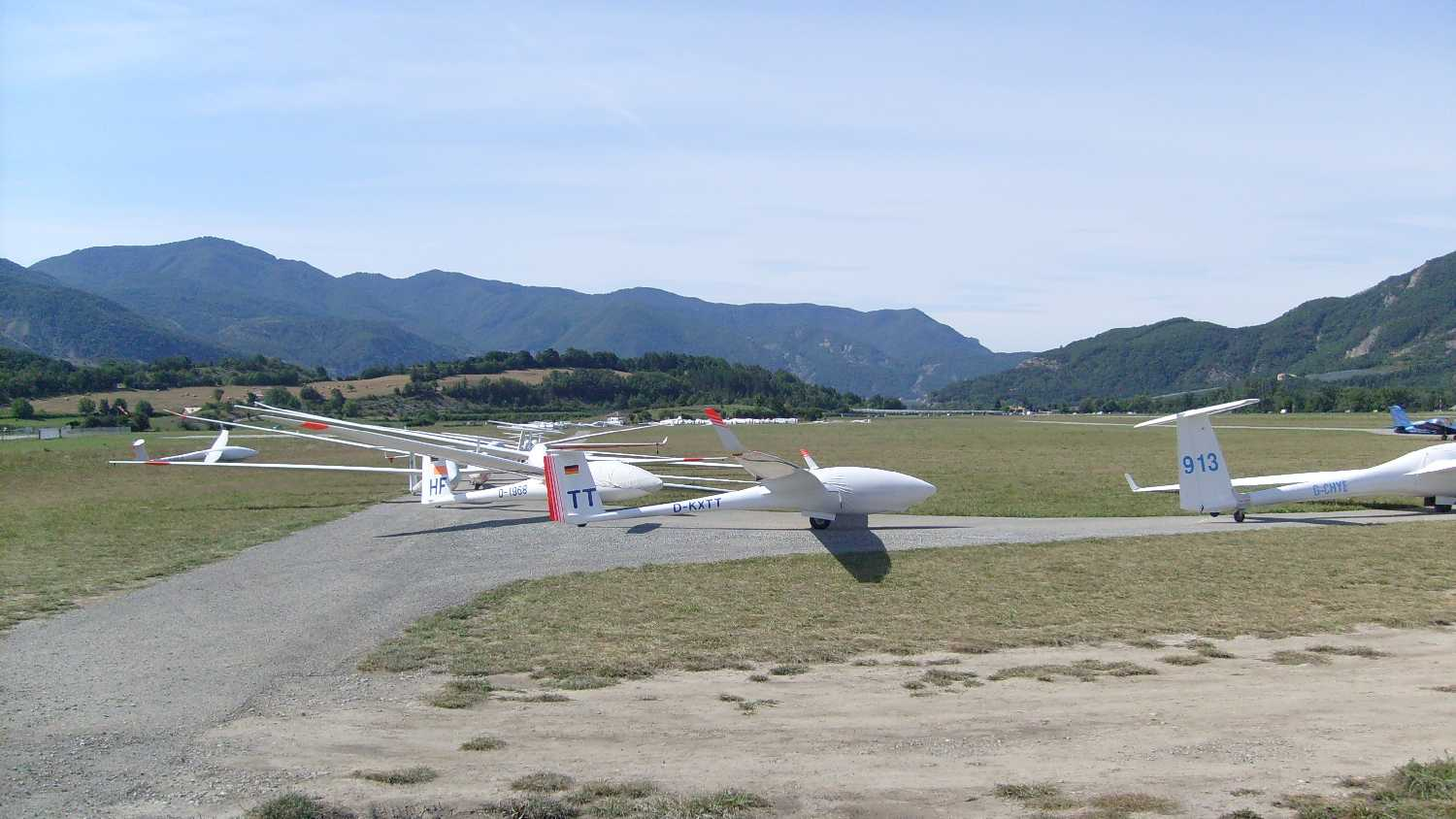 Glidings at Tallard airfield - Hautes-Alpes, France